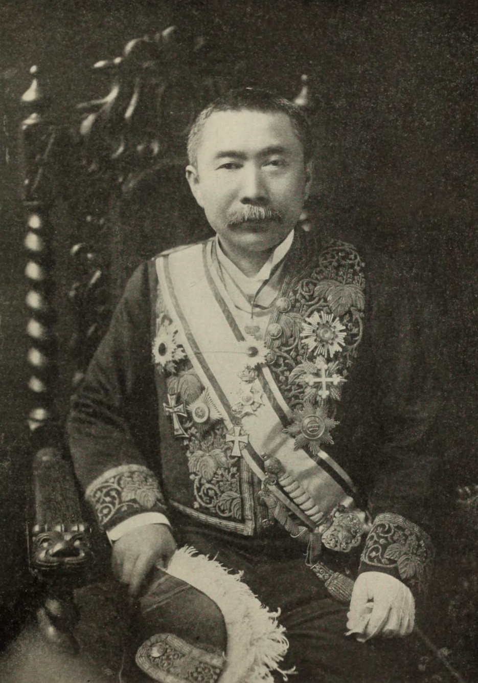 Takahira Kogoro